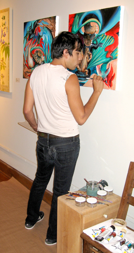 Yatika Fields, Osage Nation-Muscogee-Cherokee artist from Brooklyn, New York, doing a live paint, 2007